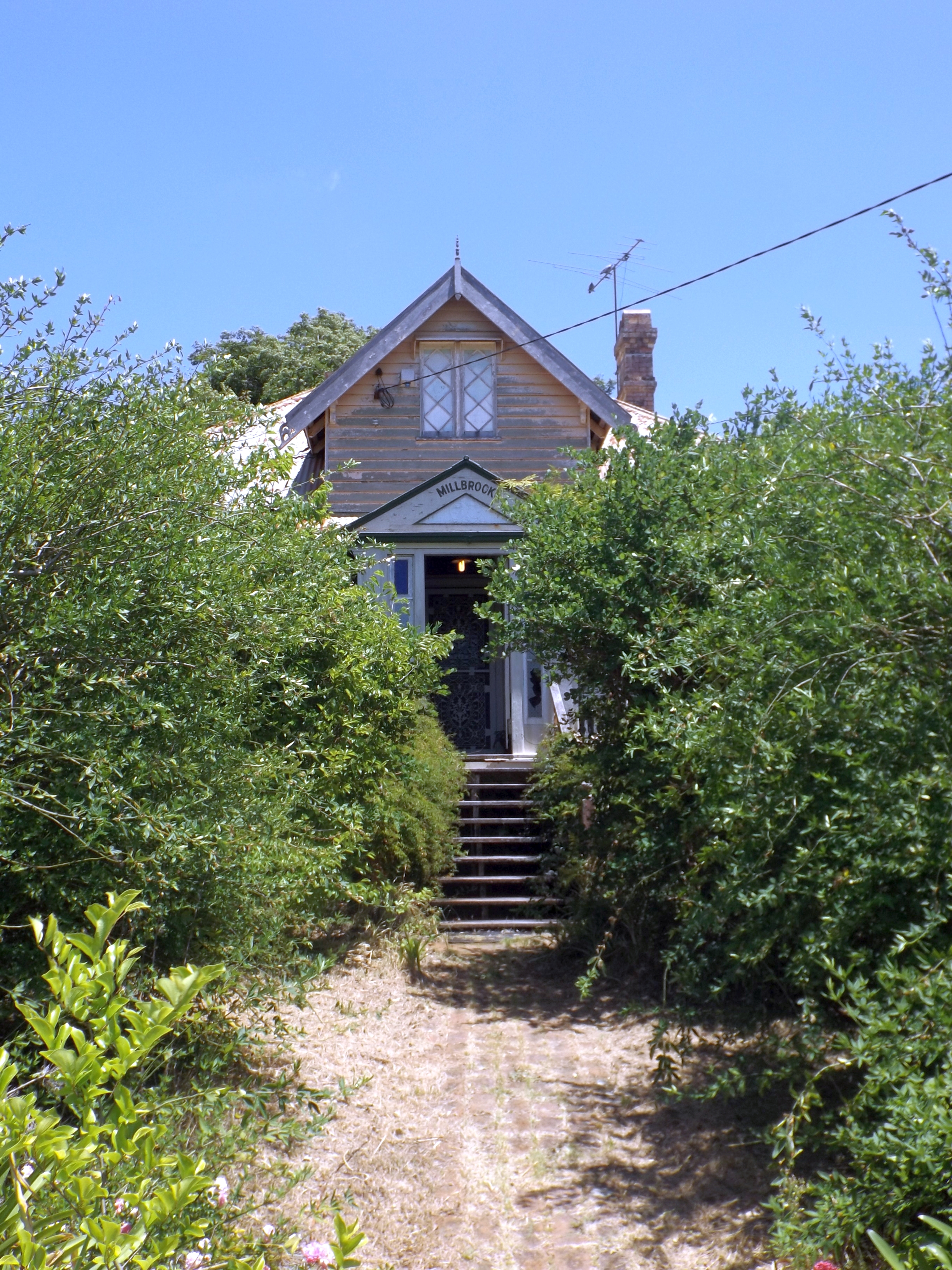 Photo of the entrance to Millbrook in East Toowoomba, Queensland, Australia.